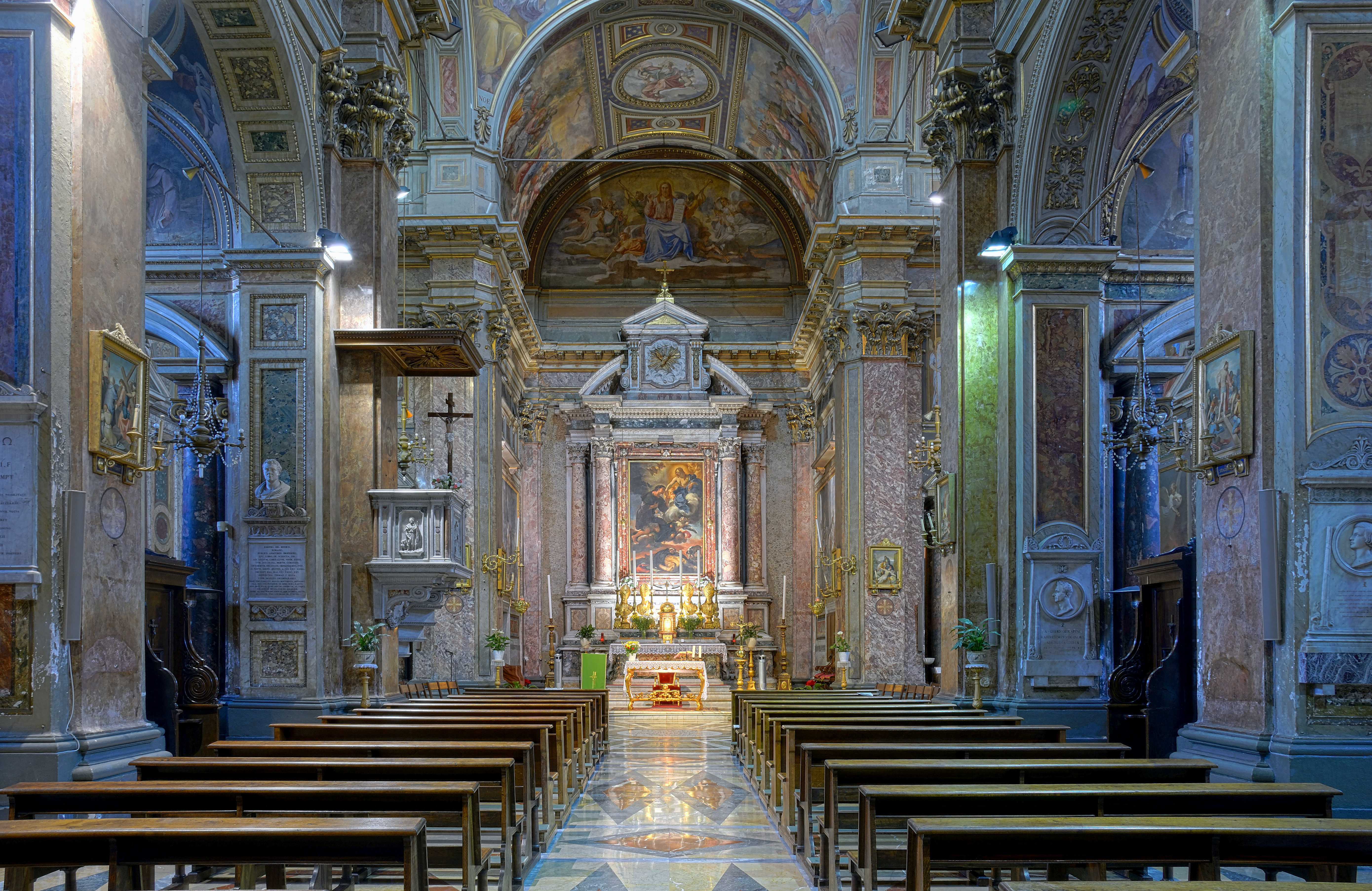 San Rocco all'Augusteo (Rome) - Interior HDR